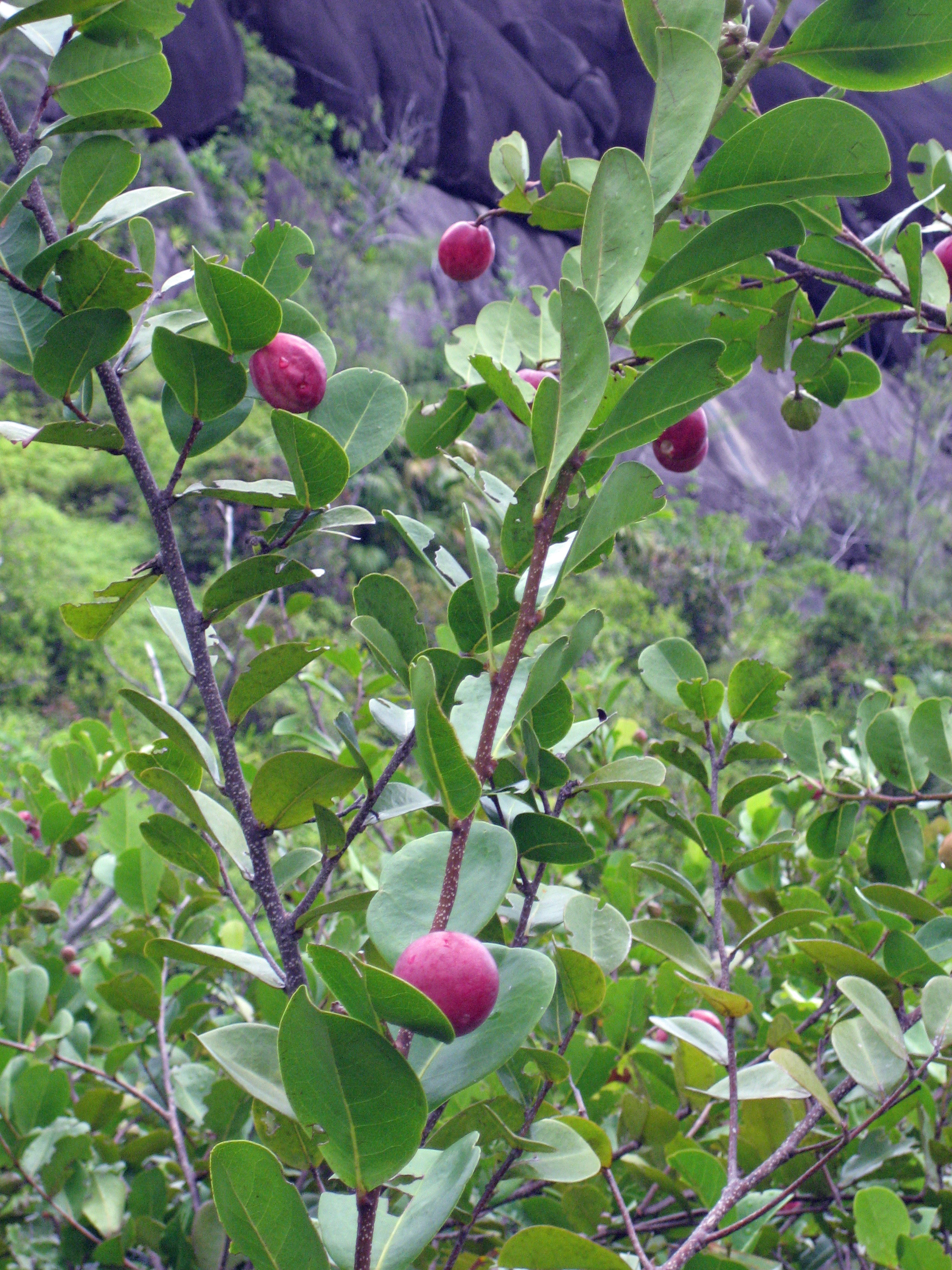 Chrysobalanus icaco ("Cocoplum") in Mahe, Seychelles